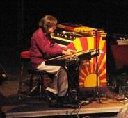 Richard Naiff performs at a The Waterboys concert in Antwerp, 2003.